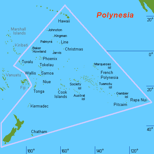 Map (rough) of Polynesia, Oceania, own work composed from various map references